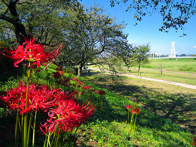 Early autumn at Gongendō Park.